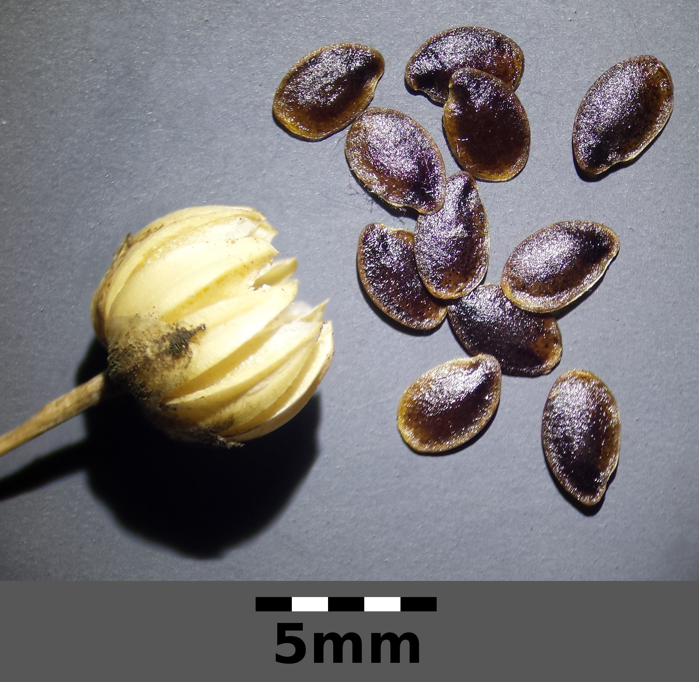 Fruit with seeds Taxonym: Linum alpinum ss Fischer et al. EfÖLS 2008 ISBN 978-3-85474-187-9 (det. Josef Greimler 2015-09-12) Location: Rax/Jakobskogel, district Neunkirchen, Lower Austria - ca. 1700 m a.s.l. Habitat: lime stone rocks